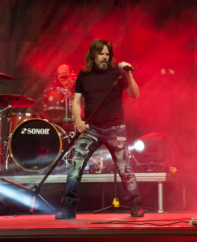 The British rock singer Doogie White performing with the Bulgarian band Kikimora at the town square in Sopot, Bulgaria.